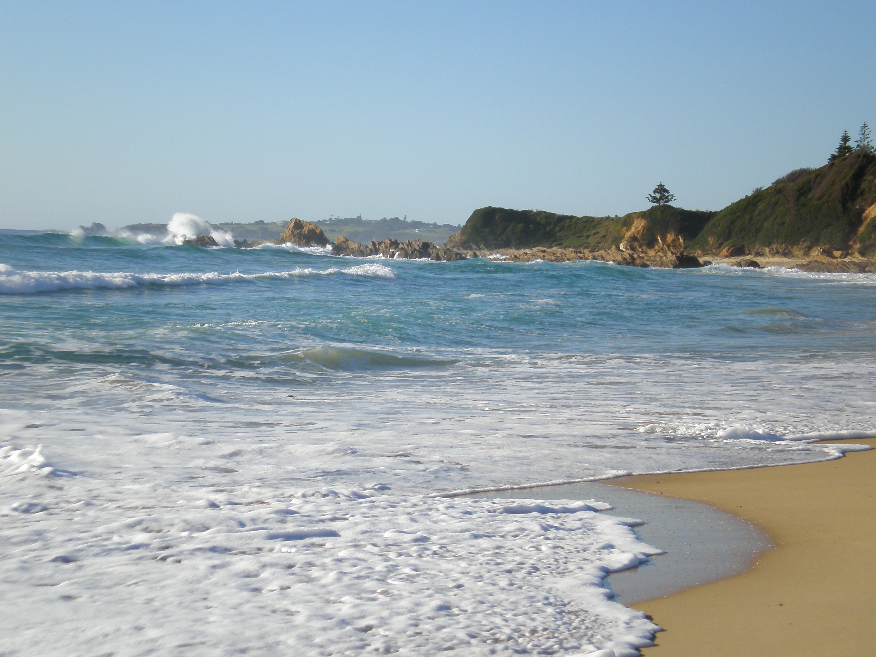 Yabbarra Beach in Dalmeny on the south coast of New South Wales